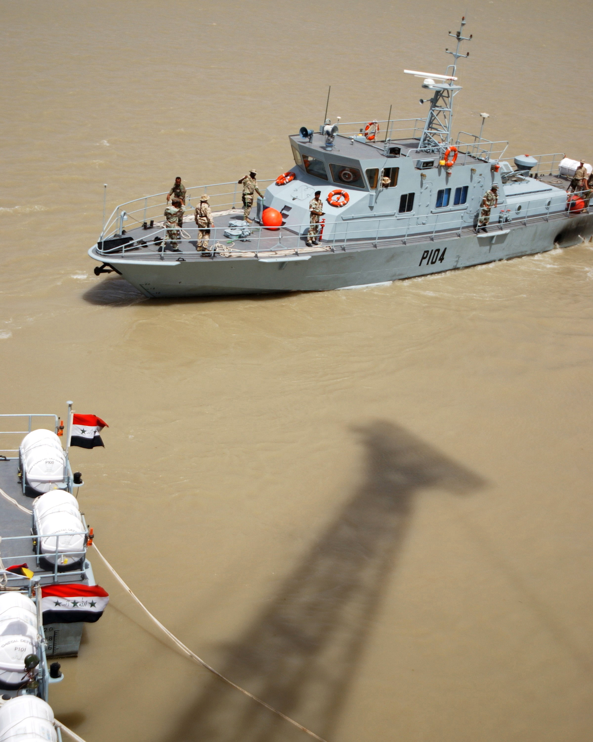 Iraqi Coastal Defense Force Patrol Craft 104 makes its way to a demonstration as part of the opening ceremony of the Defense Force base in Umm Qasr, Iraq, on June 12, 2004. The Force was created in January 2004 and trained under British-led coalition forces to provide search and rescue, anti-smuggling, policing and other defense capabilities along the coastline of Iraq.